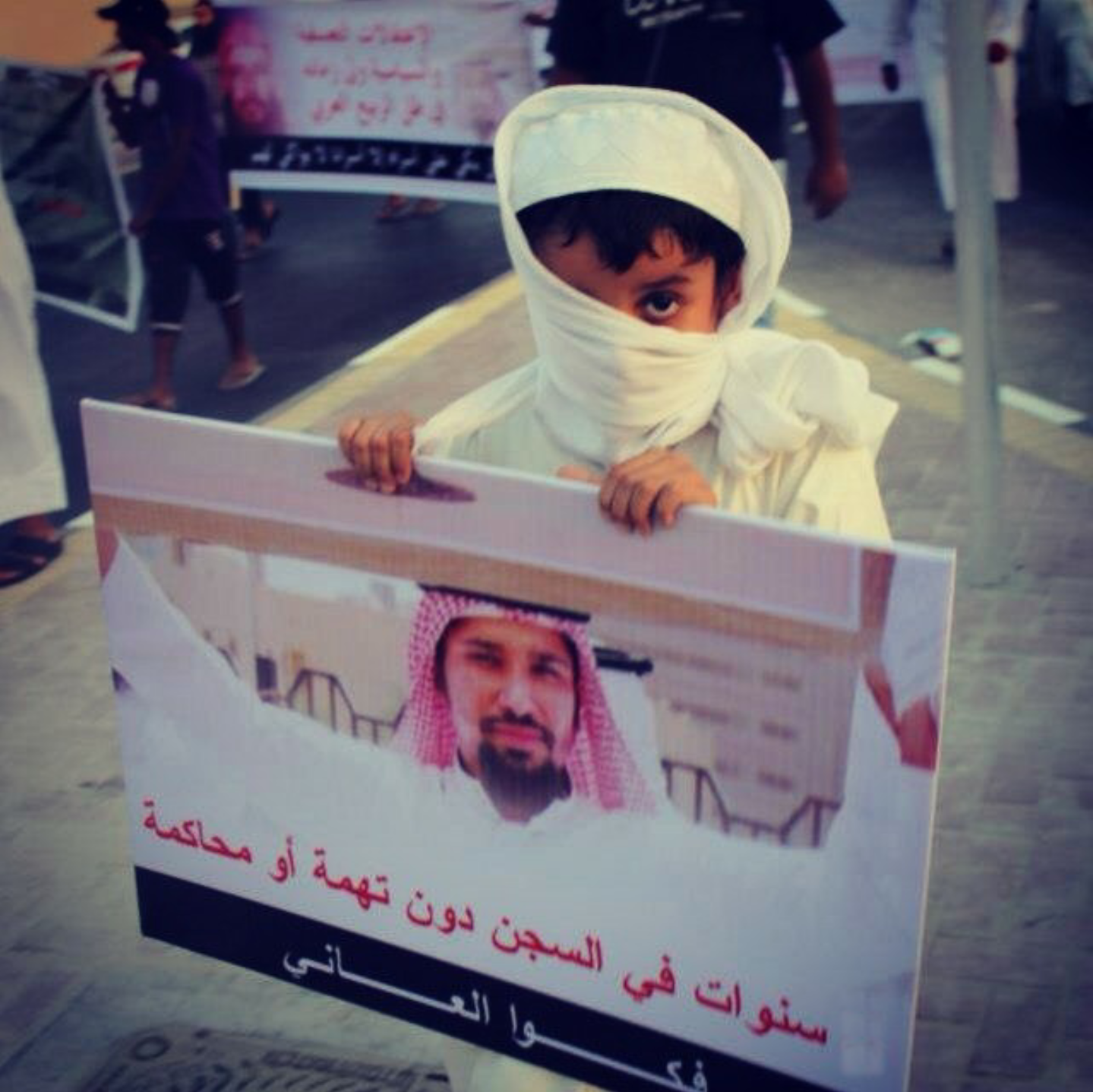 A protest in Manama Bahrain in the year 2012, asking to release Abdulla Majed Al Noaimi and Abdulrahim Al Murbati from the Saudi Prisons.